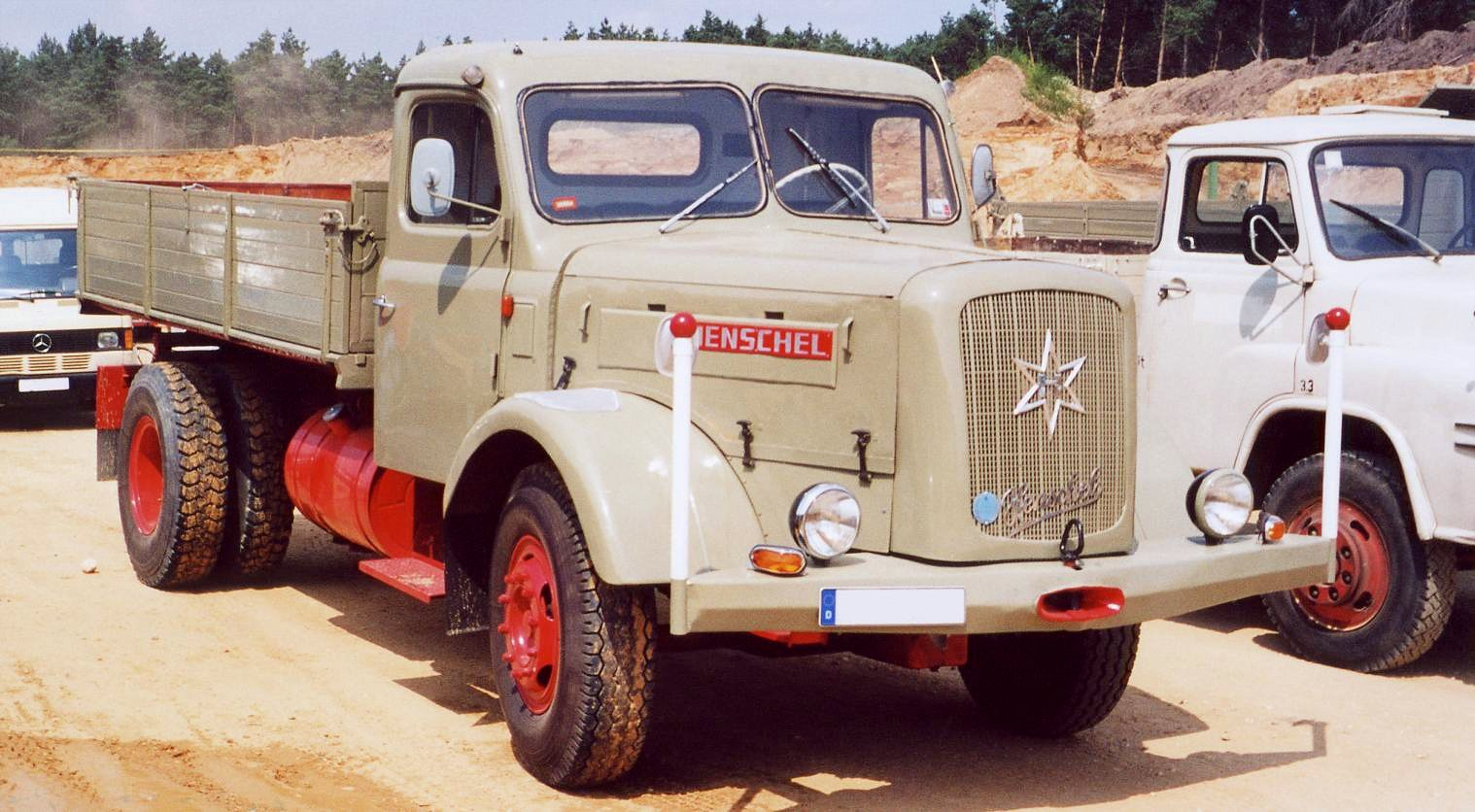 Henschel HS140K Kipper Truck